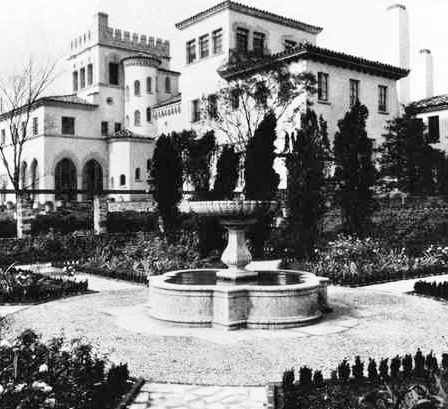 Exterior photograph of La Ronda — an estate formerly located in Bryn Mawr, Philadelphia Main Line region, Pennsylvania. Built in 1929, designed by Addison Mizner in the Mediterranean Revival Style, with Spanish Gothic Revival elements. The historic landmark was demolished in 2009.